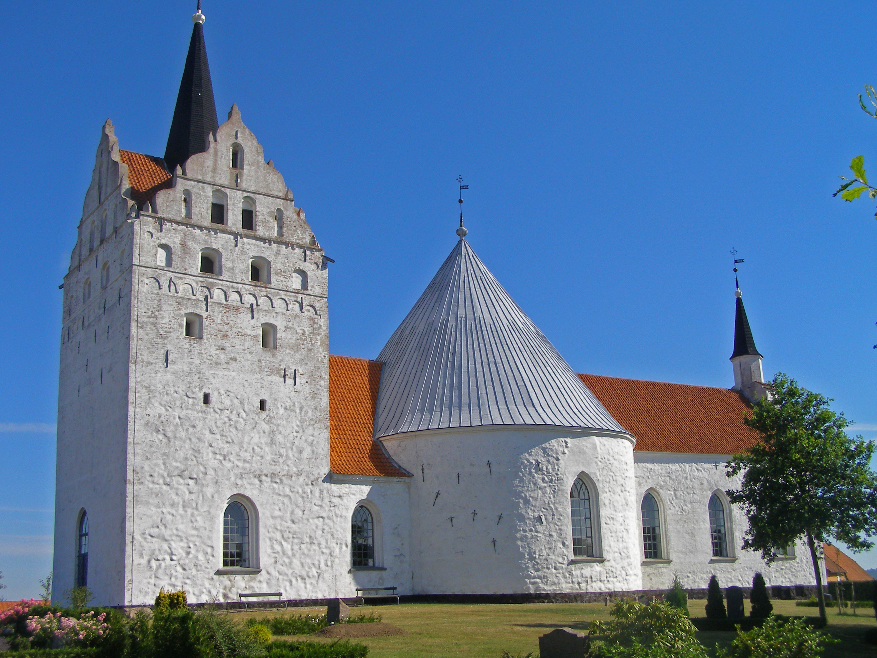 Horne Church on the island of Funen, Denmark dates to the Late Middle Ages period of Europe. Summary photographer: self date: 25 July 2006 subject: horne church, Denmark